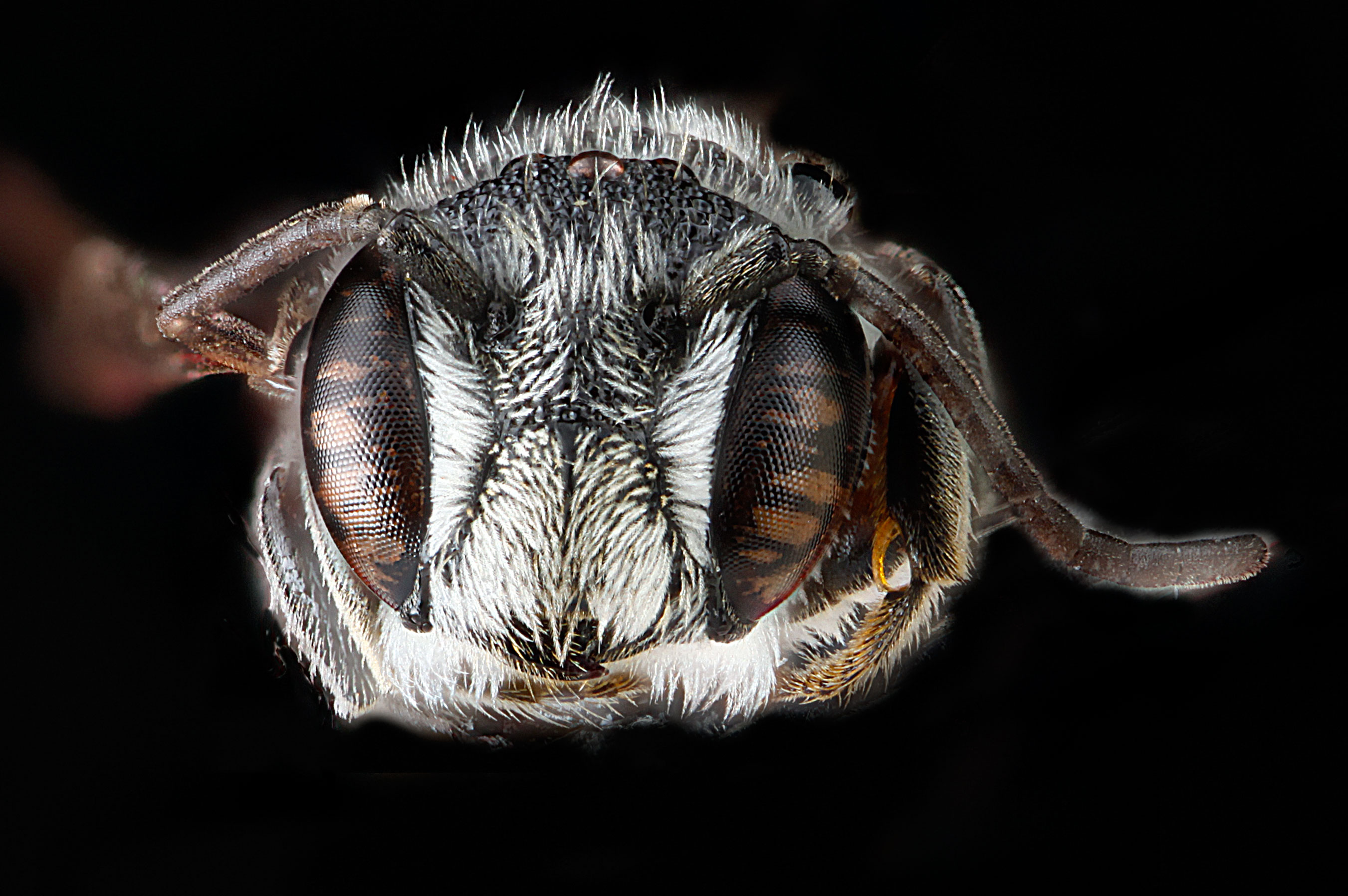 Heriades variolosus/leavitti, male